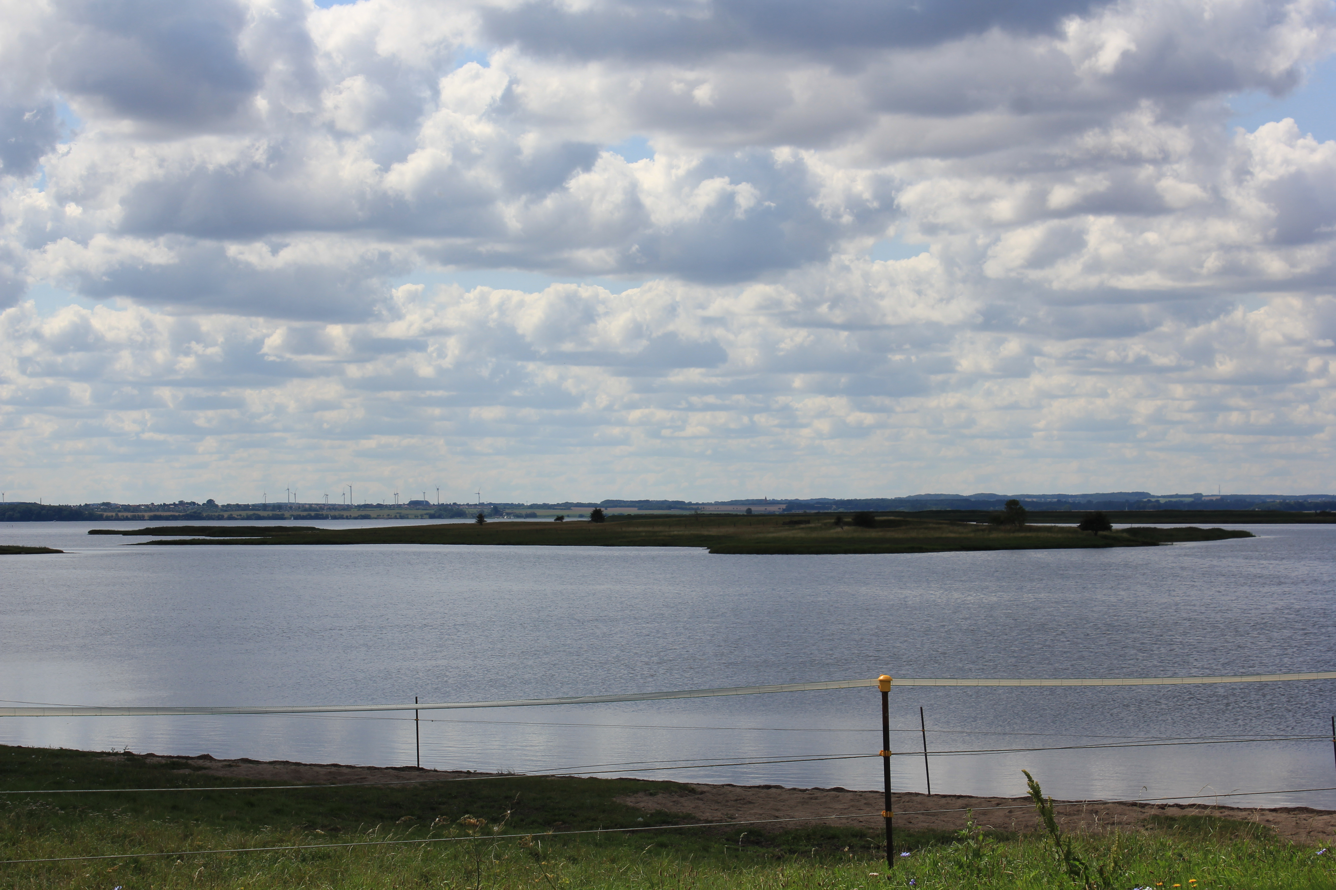 View of the isle Ahrendsberg, Mecklenburg-Vorpommern, Germany